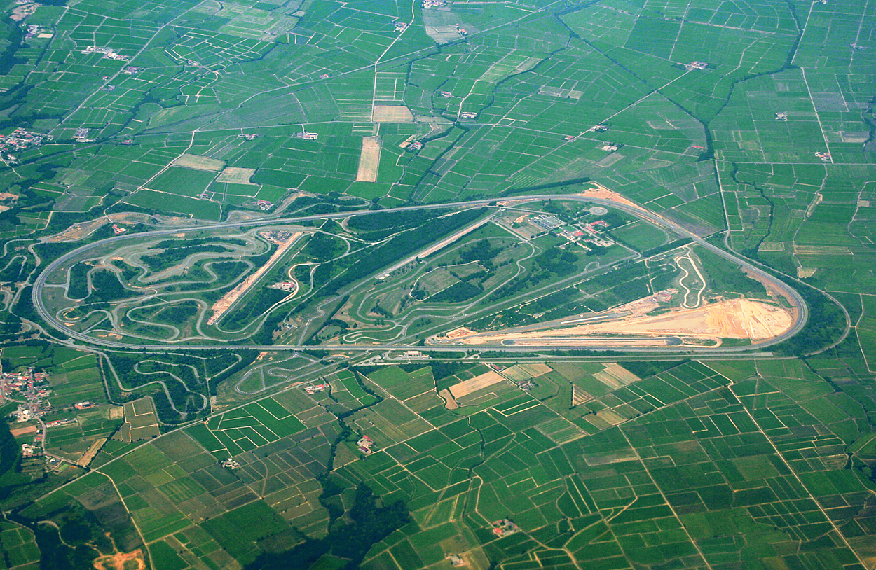 Circuito di Balocco aerial view